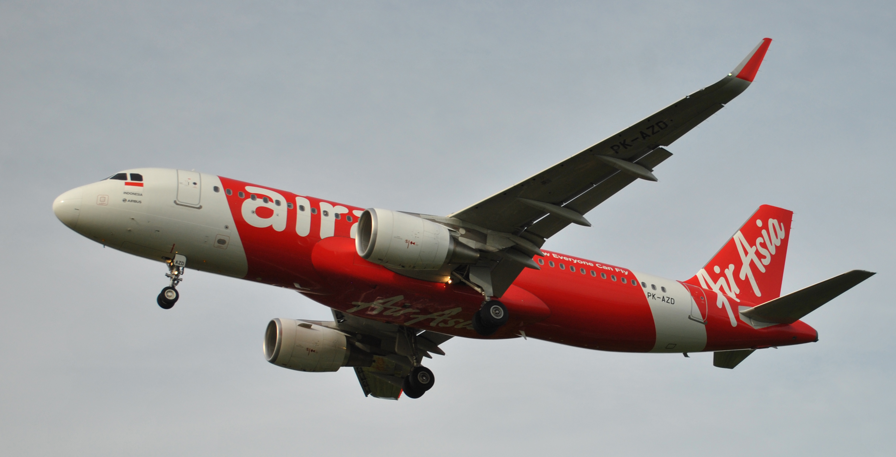 Indonesia AirAsia Airbus A320-200 (PK-AZD) landing at Ngurah Rai International Airport, Tuban, Bali